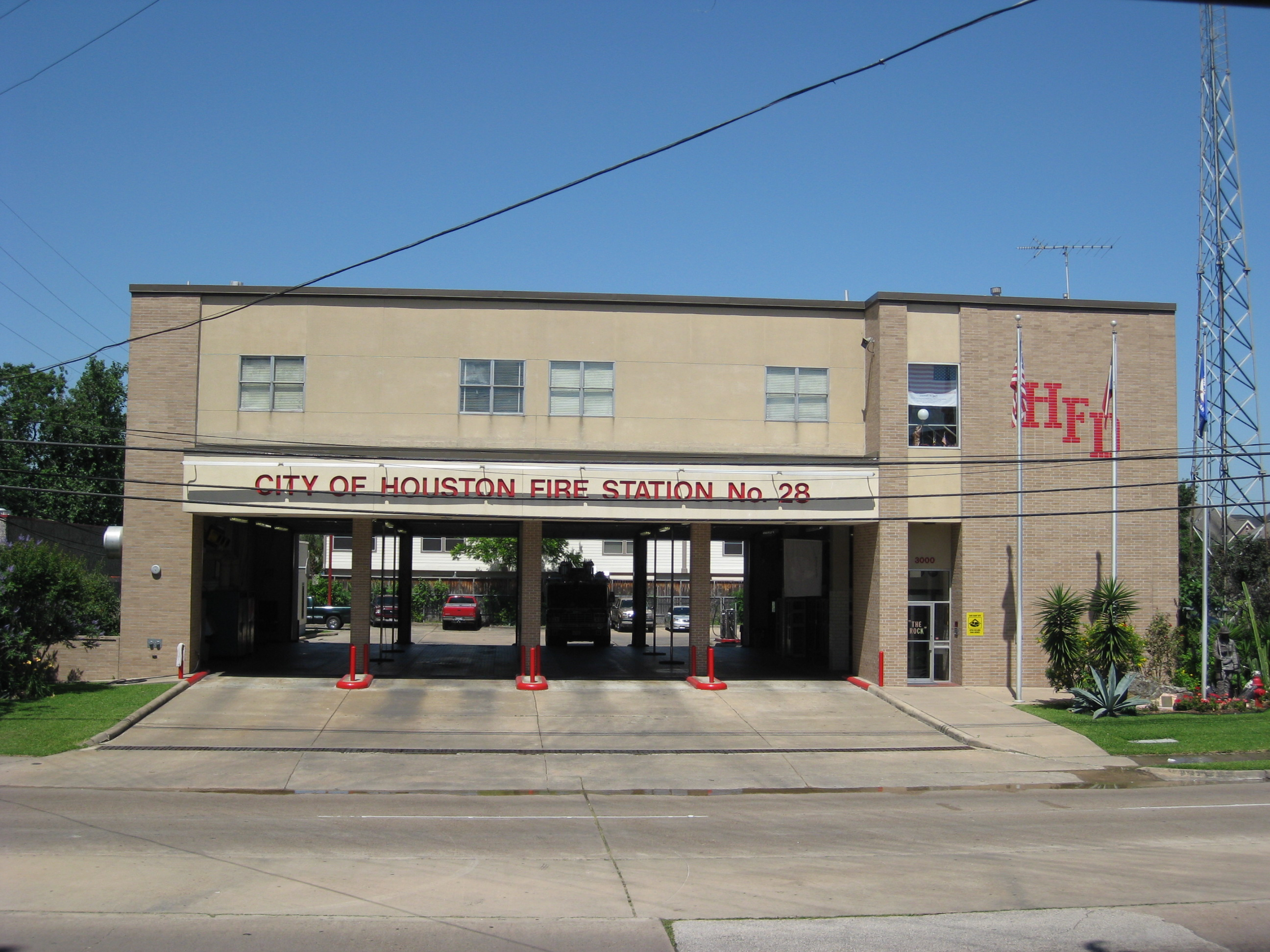 Houston Fire Station #28 Greater Uptown - 3000 Chimney Rock